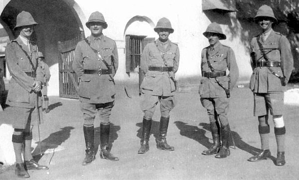 2nd Dorsets to deploy from Baird Barracks, Bangalore to Malabar. On receipt of the request for support, General Burnett-Stuart immediately ordered 2nd Dorsets to deploy from Baird Barracks, Bangalore to Malabar. They were quickly under way, having been on standby since the previous month, in two trains. The Dorsets were followed by a cavalry squadron of the Bays and a section of artillery, and together the force was to move to Podanur where it would concentrate, under the command of Colonel Humphreys. A patrol train, sent out and found the line clear as far as Shoranur. Troop trains were pushed on to that point dropping a few detachments to guard key points en route. Arriving in Malabar, the Dorsets received word that an isolated detachment of the Leinsters was in trouble at Malapuram. The immediate need, however, was to restore railway communication with Calicut, and headquarters were sent on to Kuttipuram, to which point the line had been hastily repaired, to cover the reconstruction.